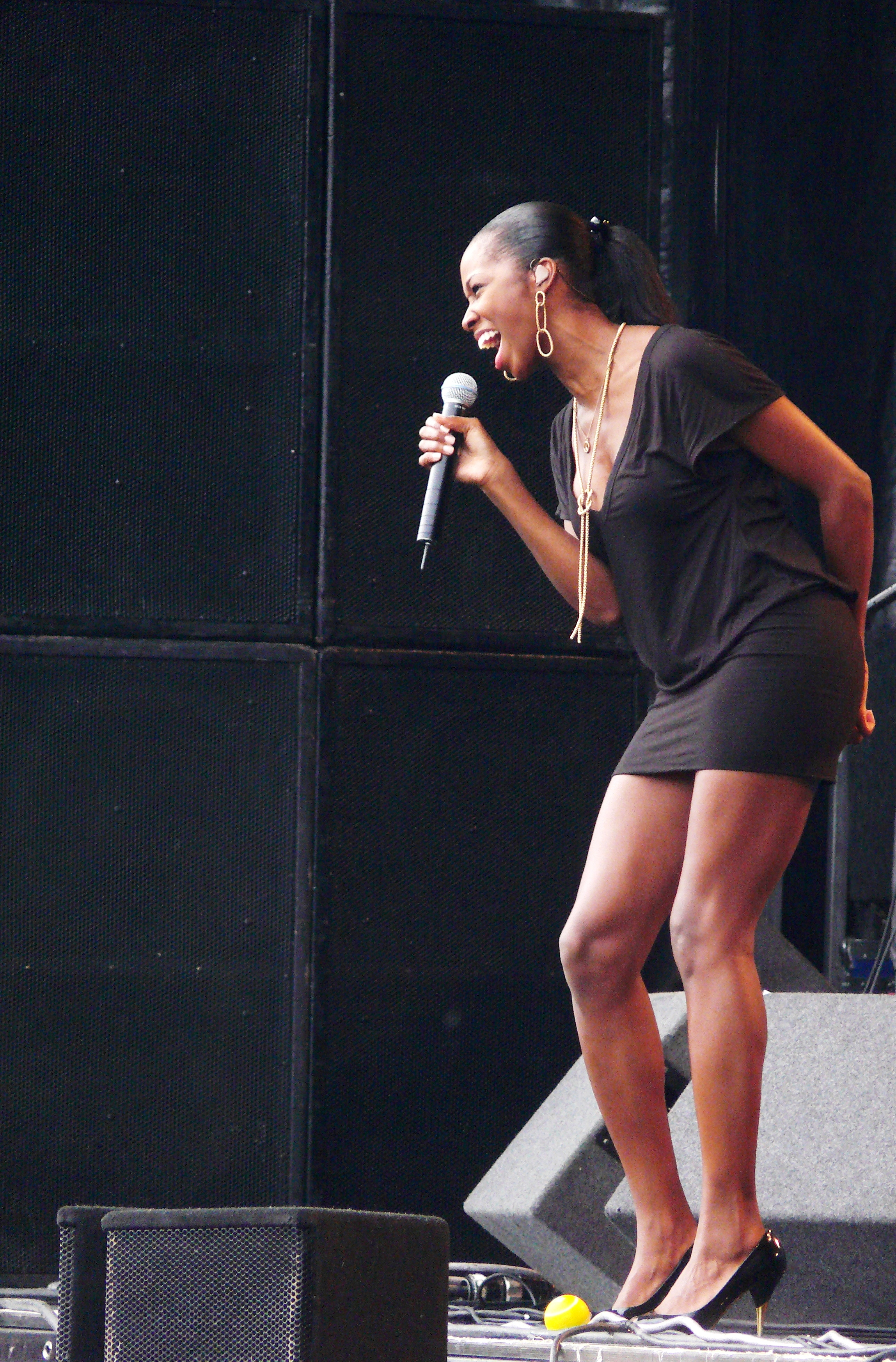 Singer Jamelia.